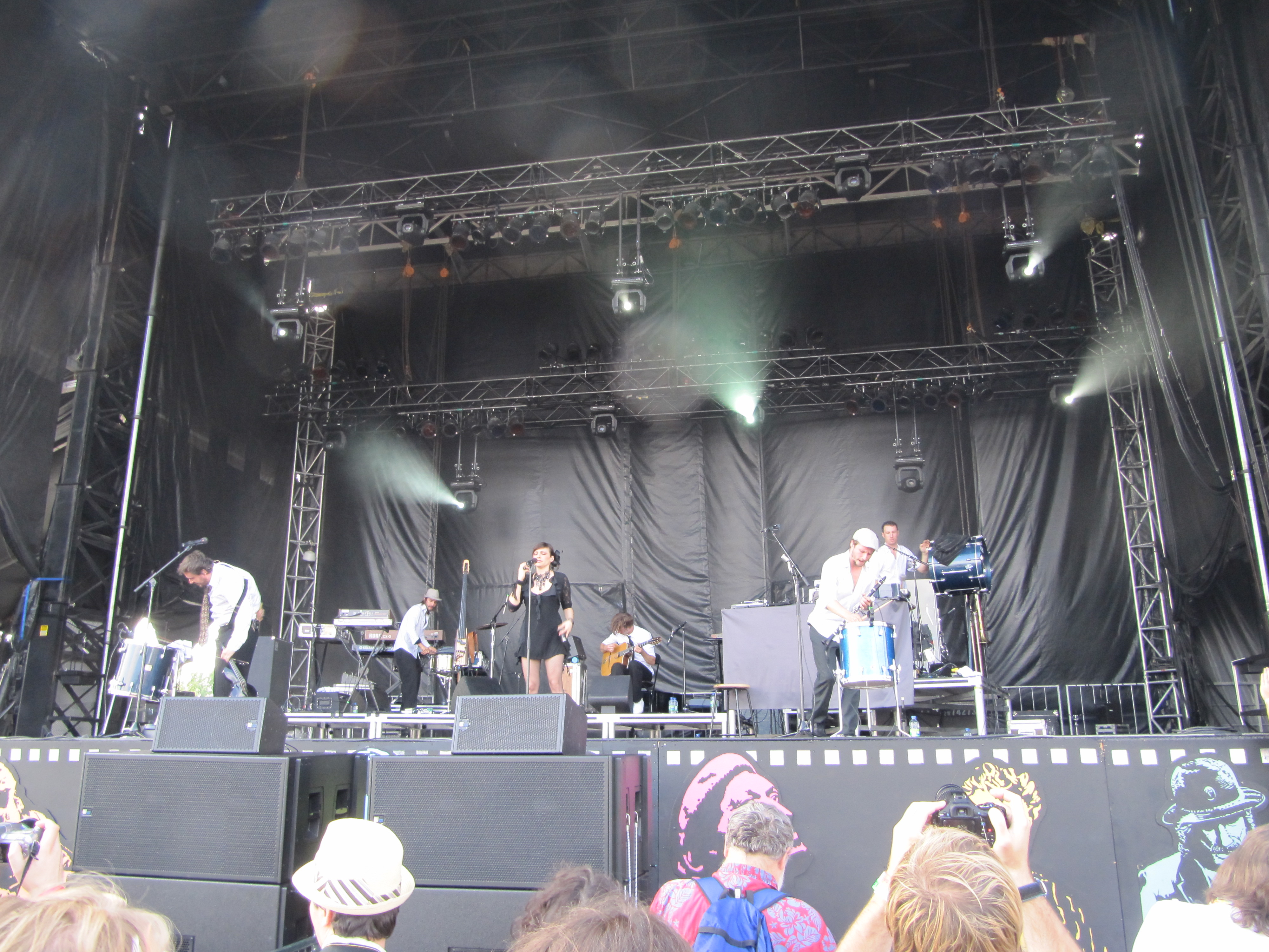 Caravan Palace, French Electroswing and Gypsy Jazz band, performing during the Ottawa Bluesfest, Ontario, Canada